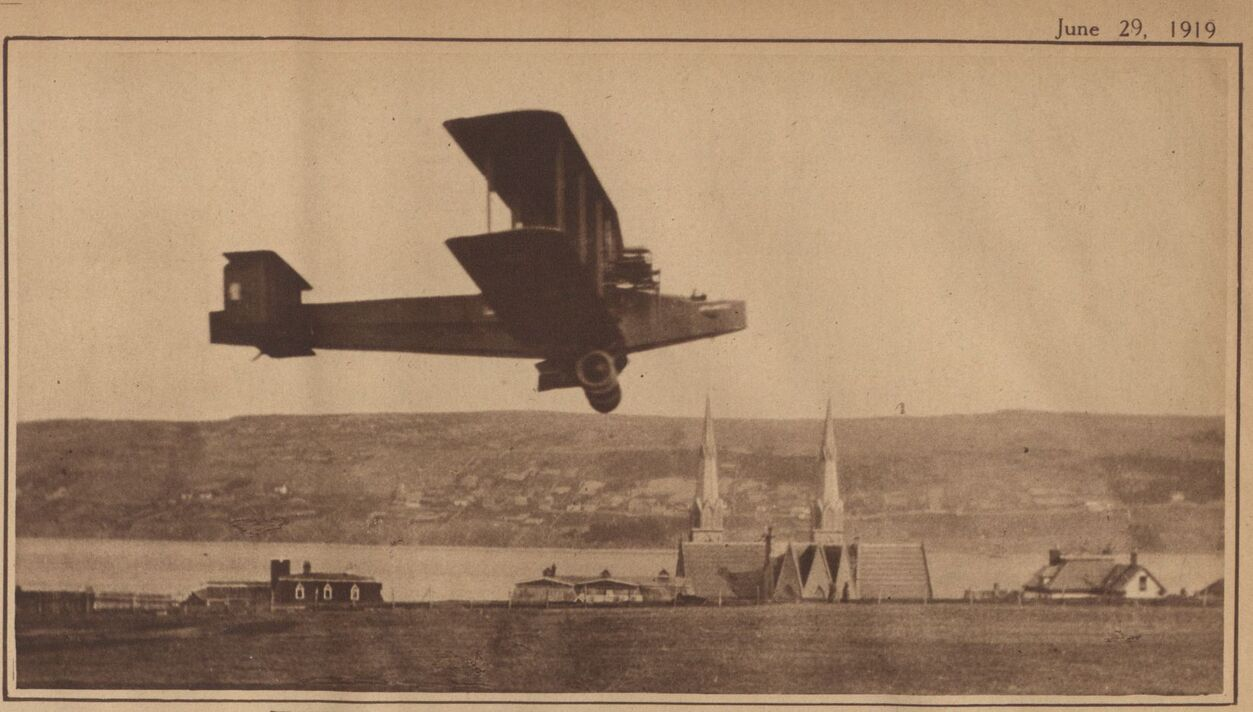 The great Handley Page in a test flight at Harbor Grace, Newfoundland, where she awaits favorable weather for her "hop-off" on her transatlantic voyage. Her pilots, Vice Admiral Mark Kerr and Major H. G. Brackley hope to beat the time record established by the history-making Vickers-Vimy